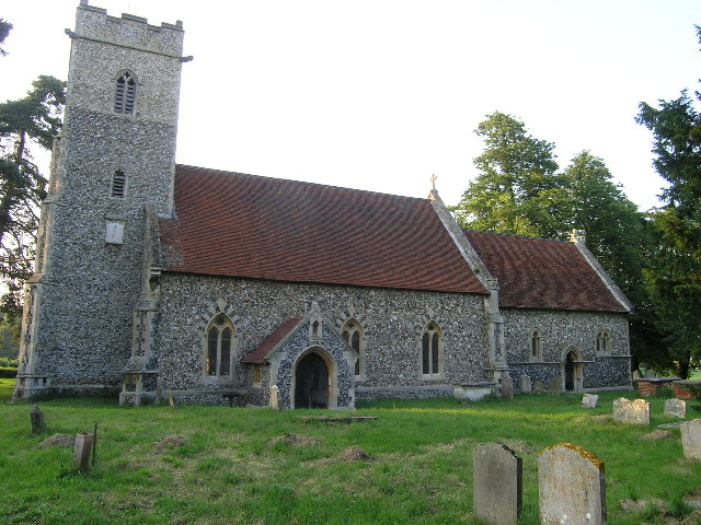 Church of St Peter in Sibton, Suffolk, England. A Grade I listed medieval church.